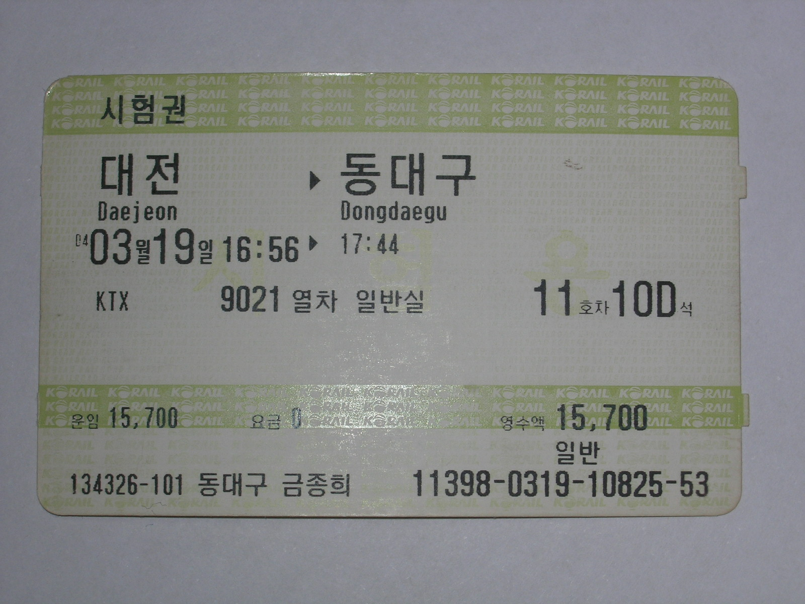 Korail magnetic stripe ticket for KTX trial run.